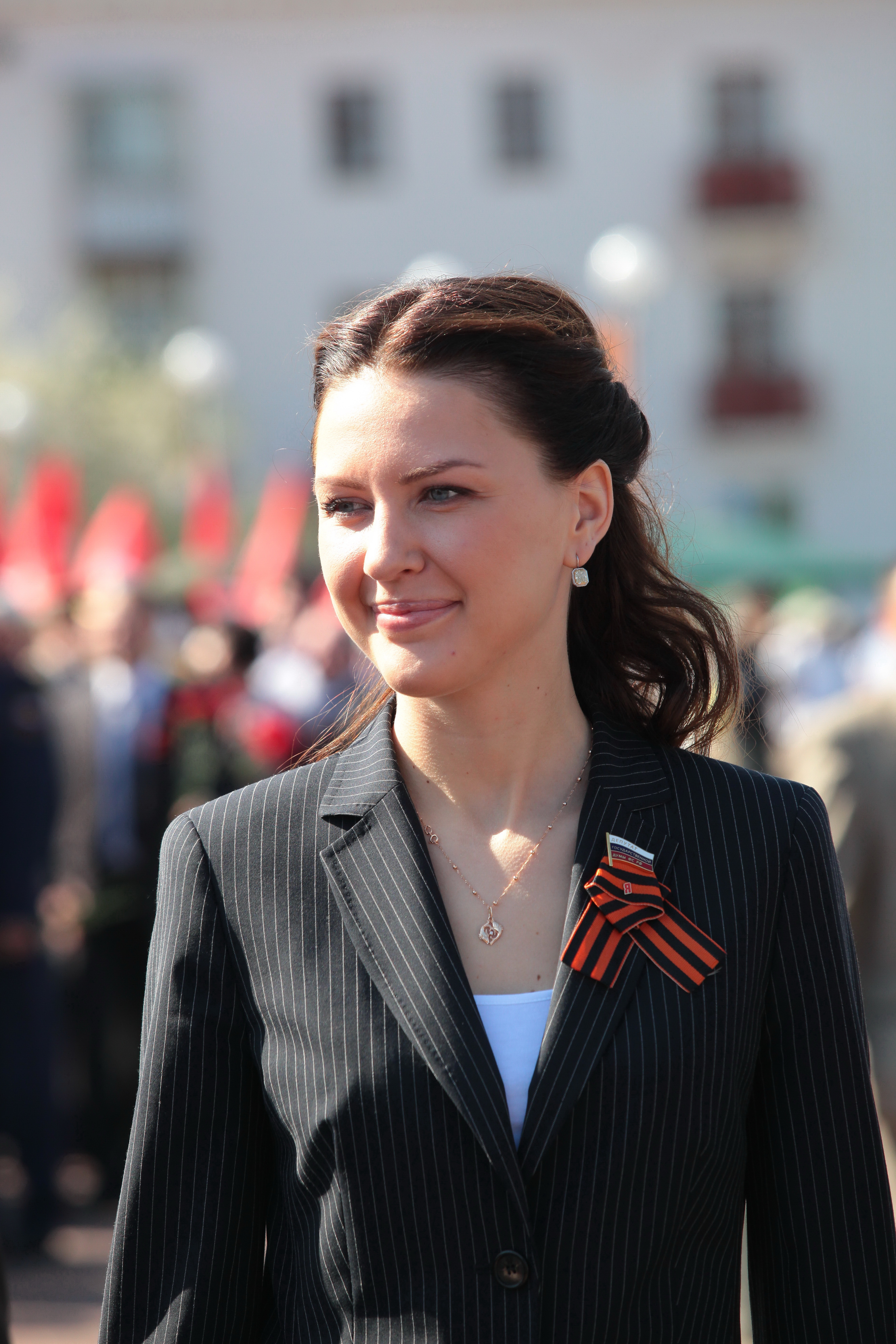 Alena Arshinova